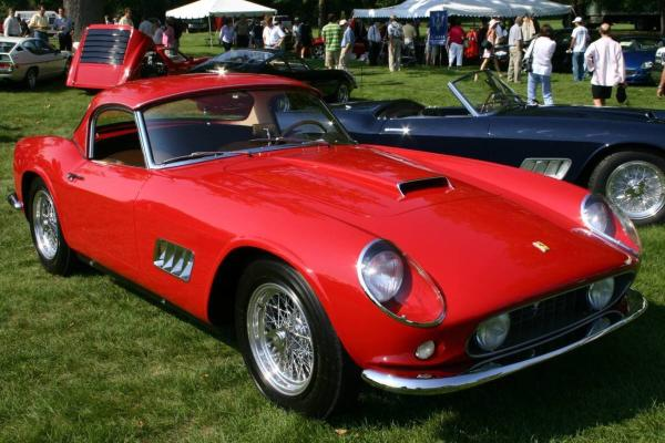 1961 Ferrari 250GT California Spyder photographed by DougW of at the 2005 Meadow Brook Concours d'Elegance.